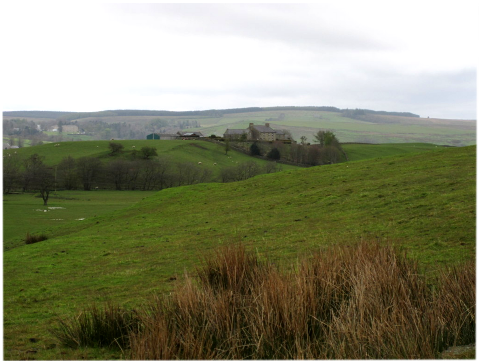 The Throp, Cumbria, seen from Shawfielf land. The Throp took over some of Shawfield land when it was split.